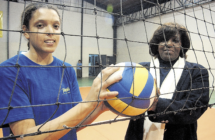 Lucha Fuentes Quijandria De Schiappa-Pietra y su hija Romina Schiappa-Pietra Fuentes in an interview for the daily El Comercio (Saturday, August 5 - 2006)